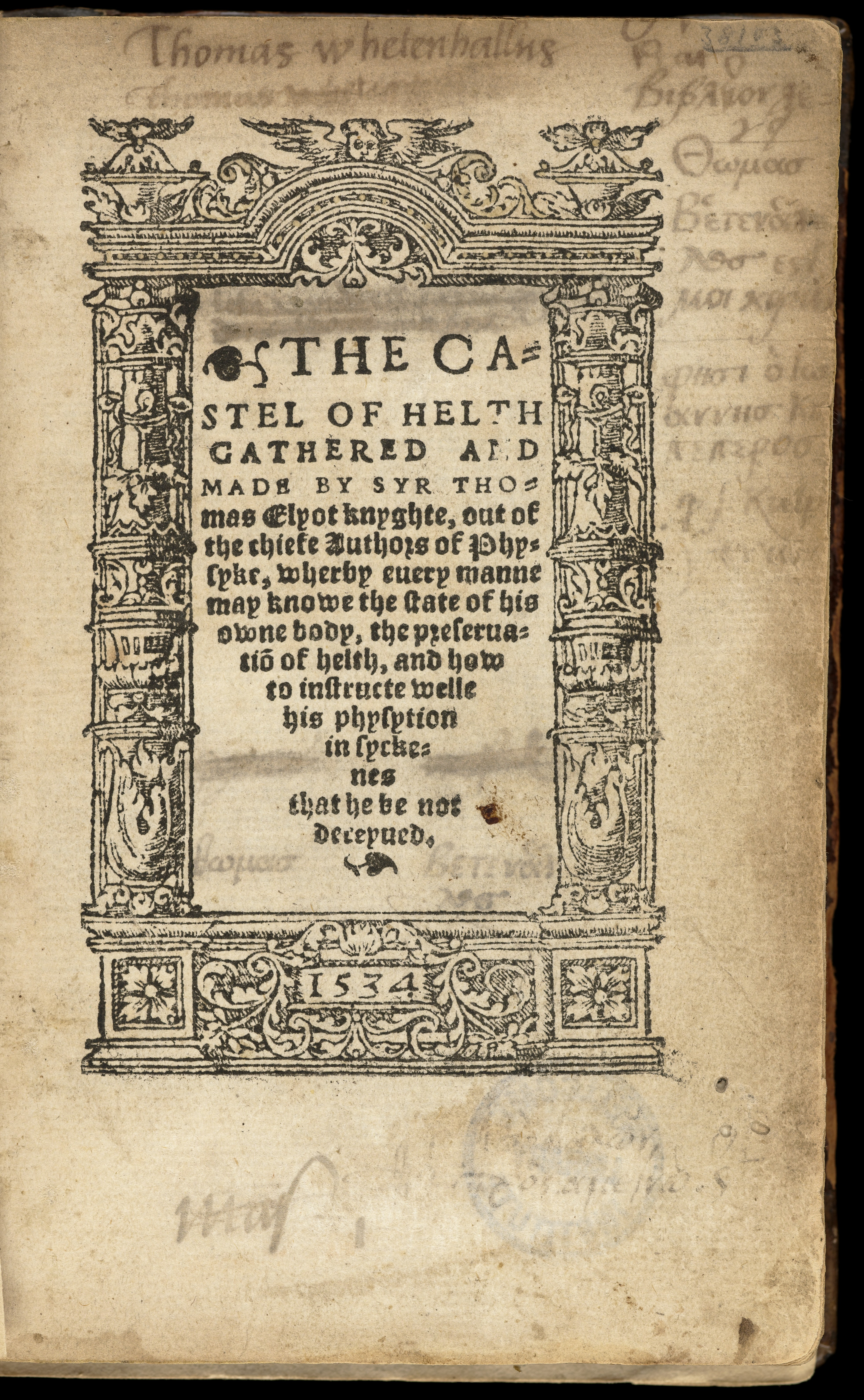 Titlepage to T. Elyot 'The castel of health' Rare Books Keywords: Hygiene; Health